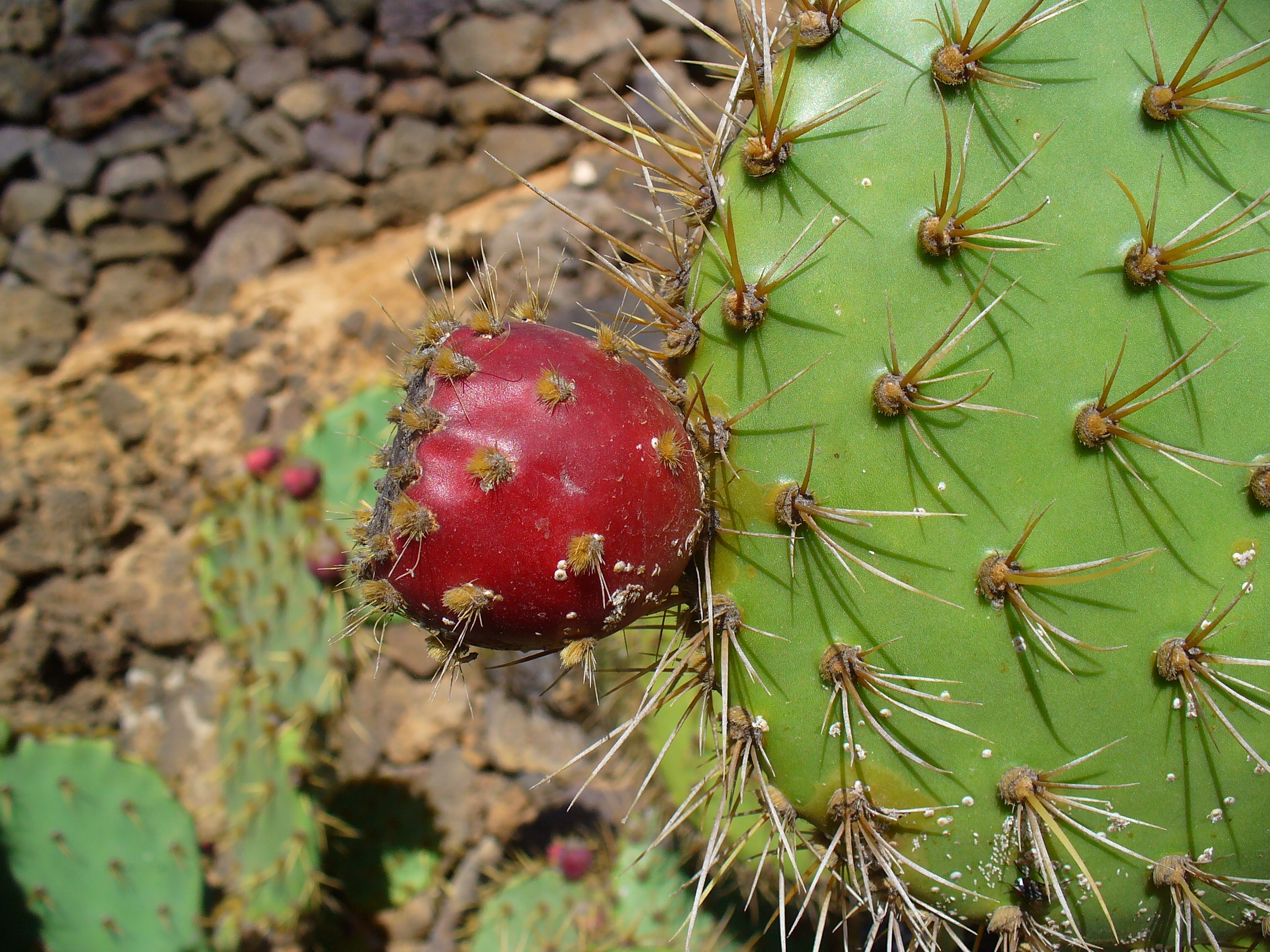 Fruit; Jardín de Cactus, Guatiza, Lanzarote, Canary Islands, Spain.